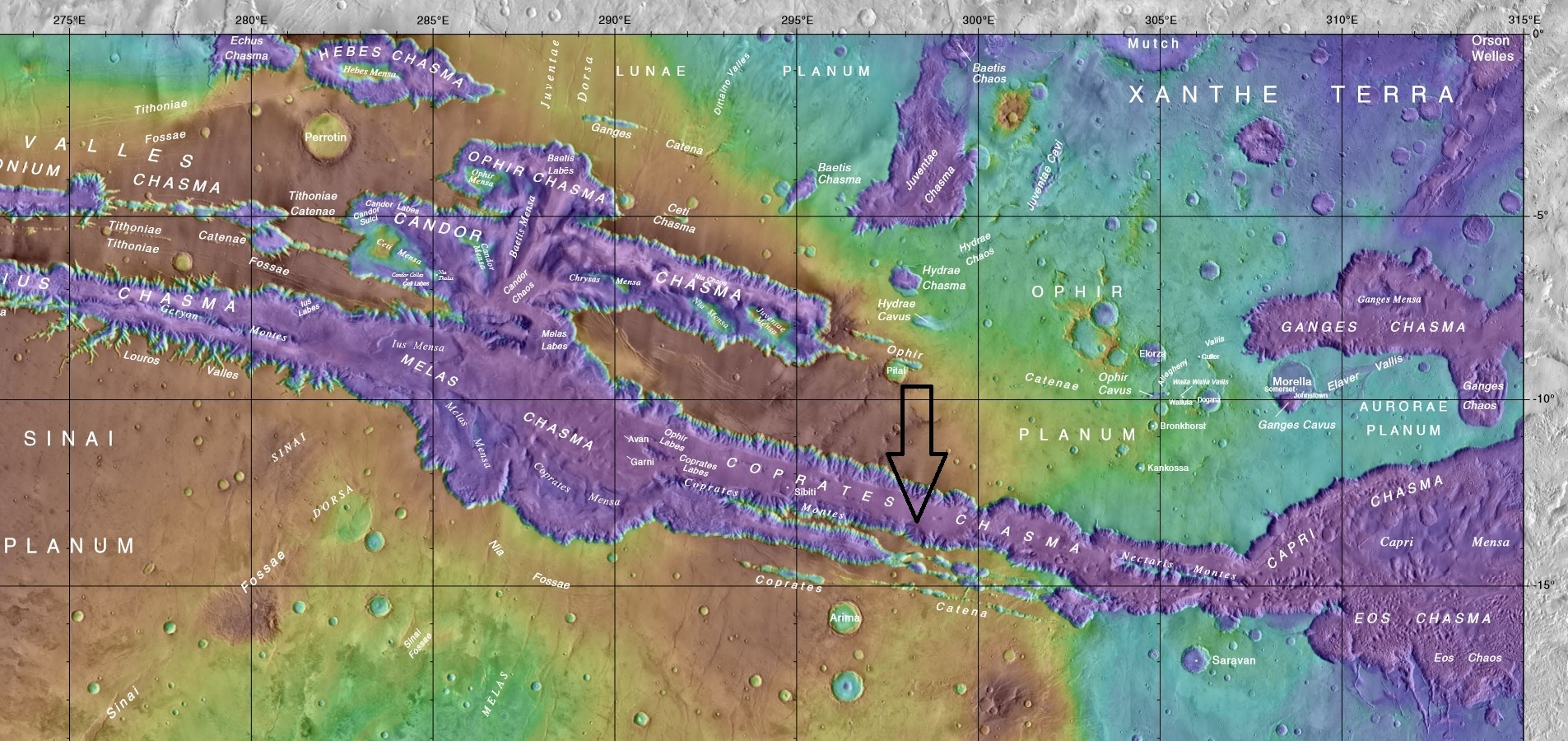 Topo map showing names of features near Vallis Marineris with an arrow pointing toward seasonal flows seen with hirise image ESP_049955_1665